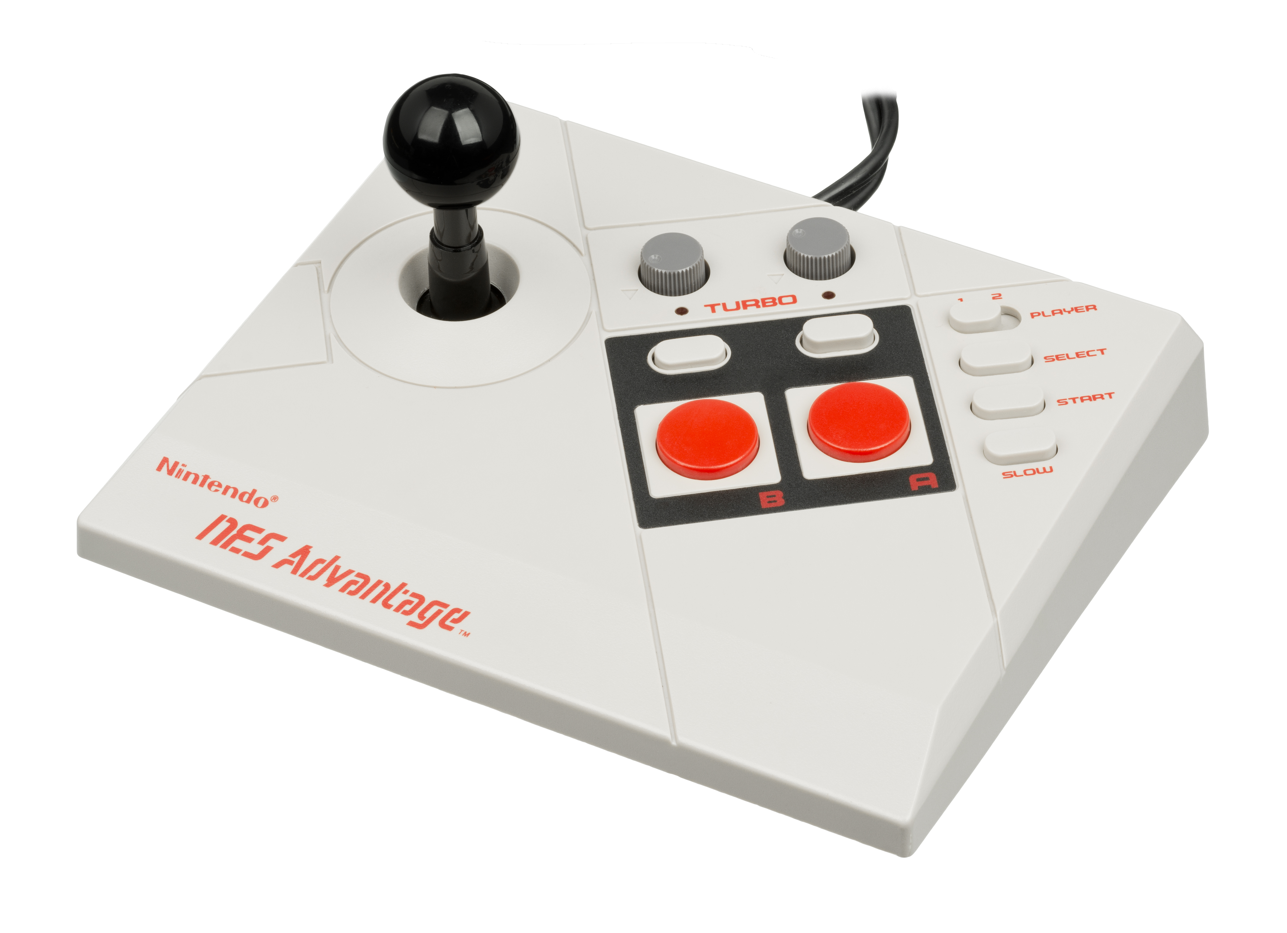 The NES Advantage, a video game controller for the NES console made by Nintendo and released in 1986. Only released in North America, it was an marketed as an alternative to the joypad controller, as many people still preferred the joysticks that had been popular with systems like the Atari 2600. The controller also offers advanced options like turbo and slow motion, something common on third-party controllers at the time.